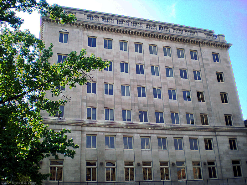 Thackeray Hall at the University of Pittsburgh. photo by Michael G White